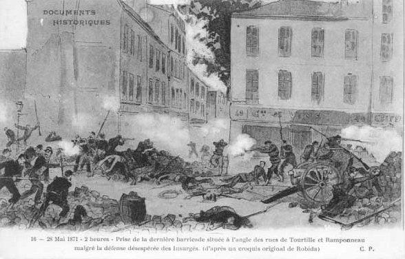 Postcard. The last barricade of the Commune (1871).